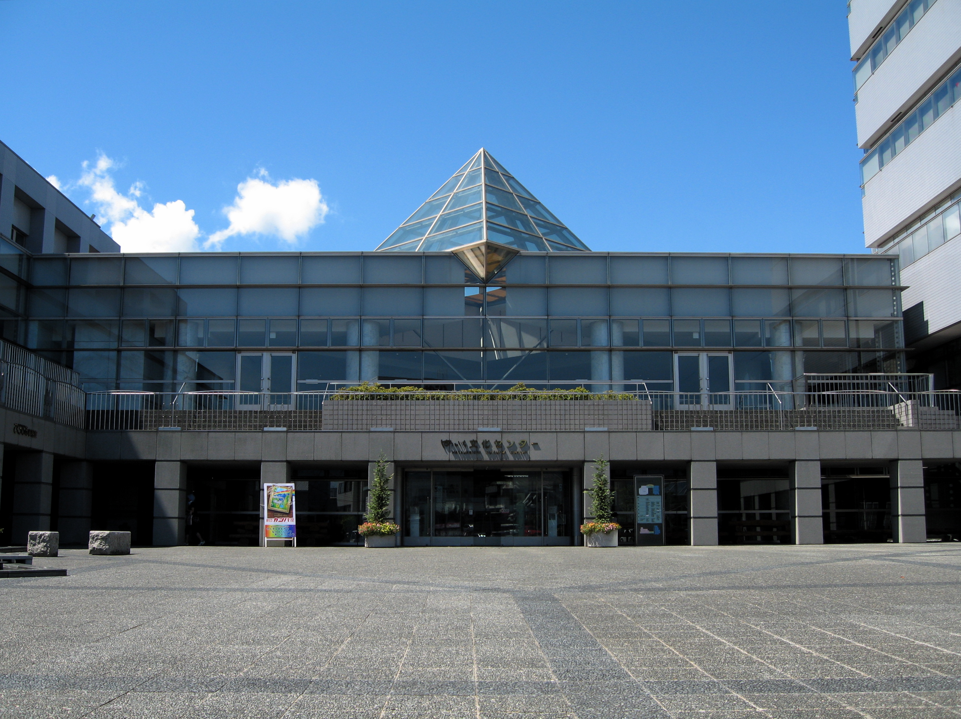 Hatsukaichi City Hall Complex